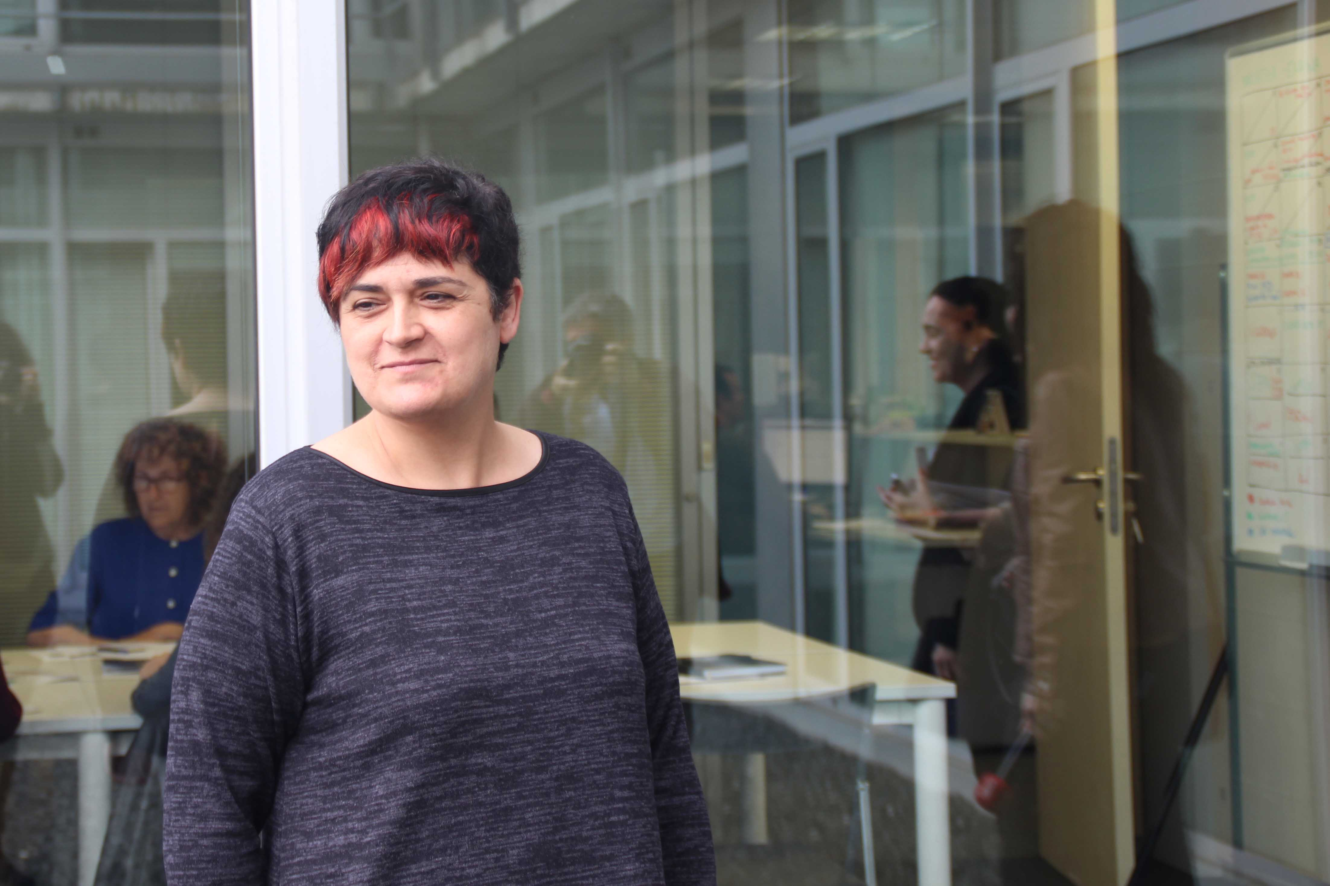 Marian Beitialarrangoitia, member of EH Bildu